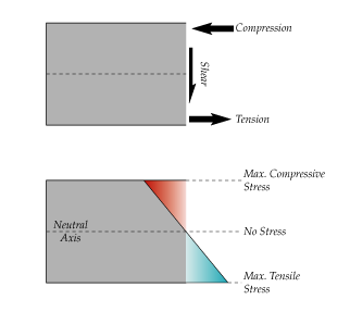 The internal forces and the cross-sectional stress distribution in a beam in bending.